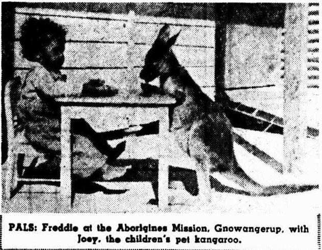 Aboriginal boy and Joey at Gnowangerup mission in 1953